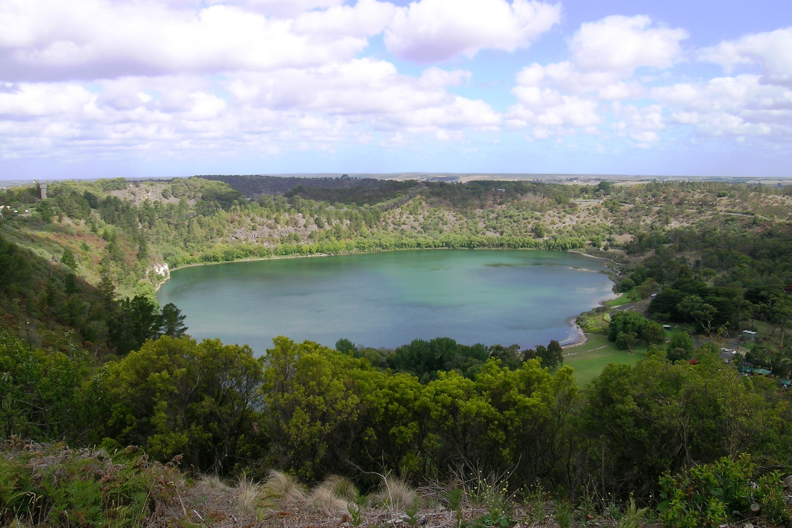 Lake of Mutton Lake, Mount Gambier, South Australia